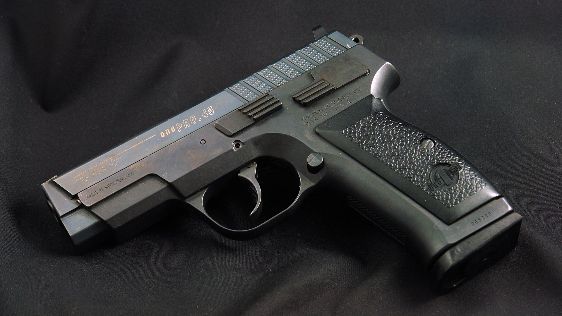 Swiss-made 45acp based on CZ75 design